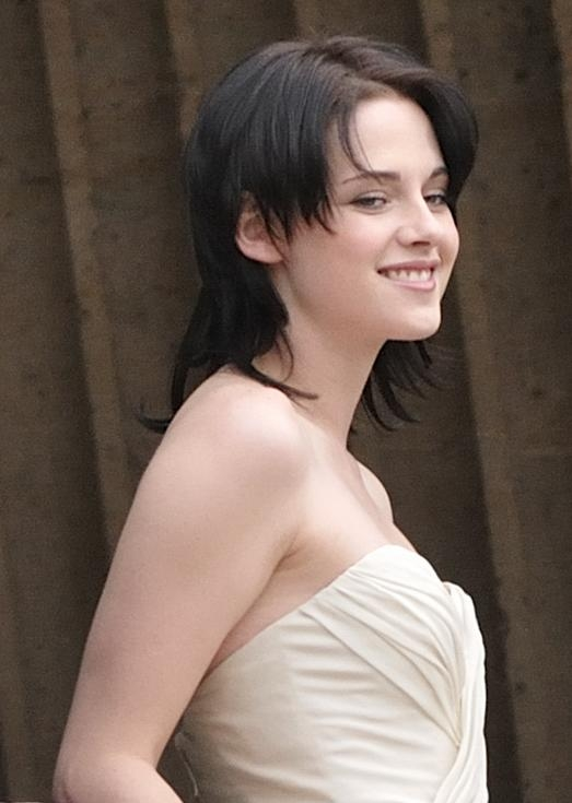 Kristen Stewart attending the Twilight Saga Film New Moon (Twilight Chapitre 2 Tentation) Photocall at the Crillon Hotel in Paris, France on November 10, 2009.